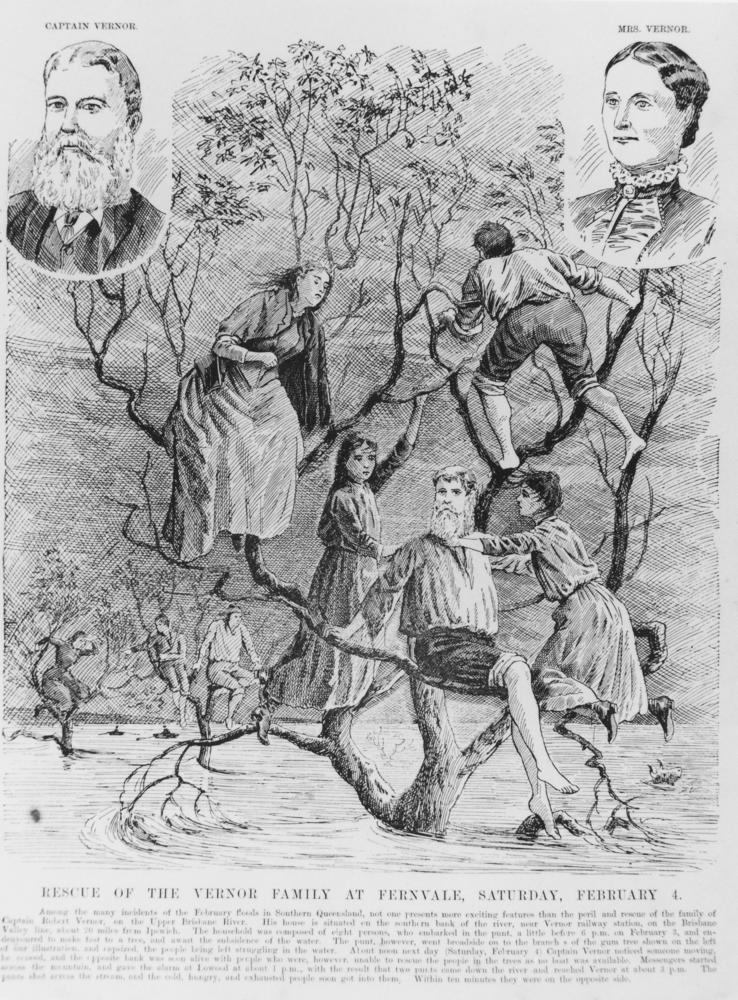 Engraving of the Vernor family rescued during the February flood near Fernvale, 1893. The script under the engraving describes the members of the Vernor family stranded in trees in the Upper Brisbane River when their punt capsized during the floods. After a long night in the trees the family of eight was rescued and brought ashore exhausted and hungry.